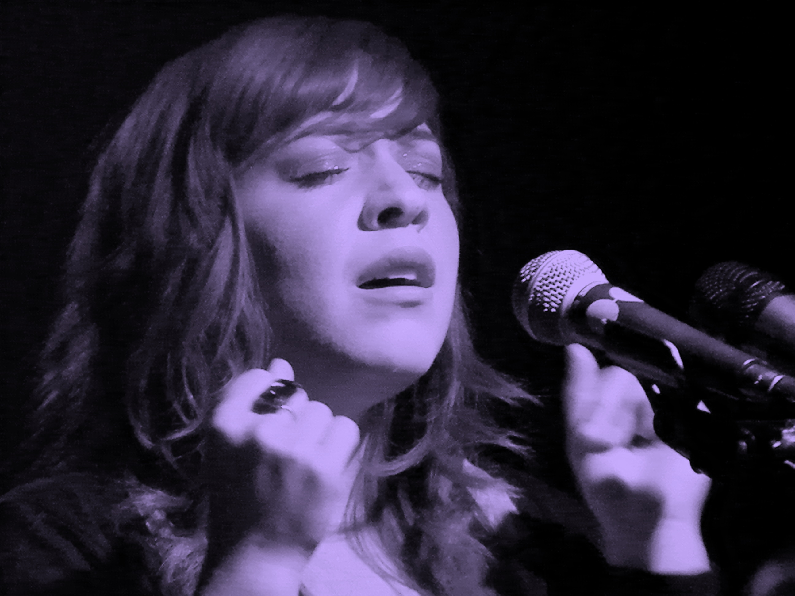 Carla Morrison